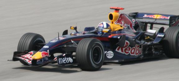 David Coulthard driving for Red Bull Racing at the 2007 Malaysian Grand Prix.